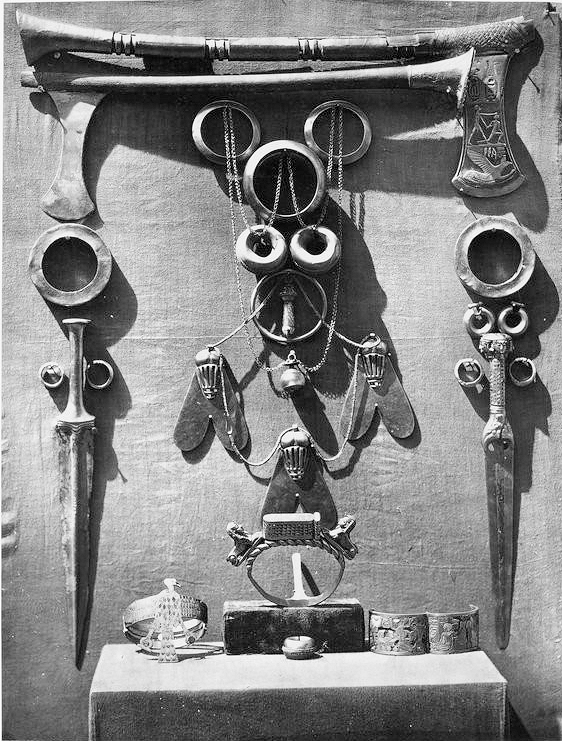 Jewels and Weapons of Queen Ahhotep (by Mariette)